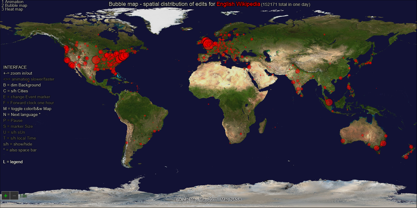 Edits to the English Wikipedia combined on 11 May 2011 by location depicted on a world map. Image by Erik Zachte, Wikimedia Foundation